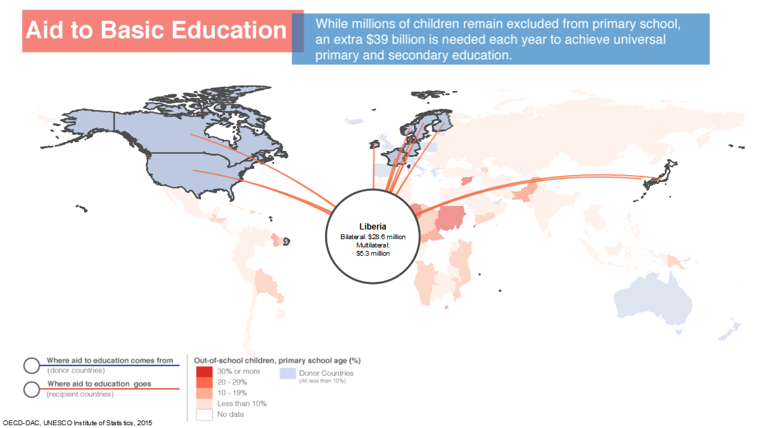 Aid to Basic Education. While millions of children remain excluded from primary school, an extra $39 billion is needed each year to achieve universal primary and secondary education.